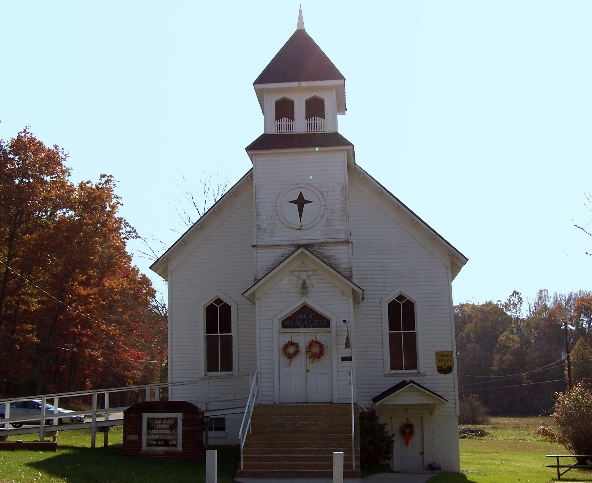 Sam Black Church in Greenbrier County, West Virginia, United States. Built in 1902, the church is listed on the National Register of Historic Places.